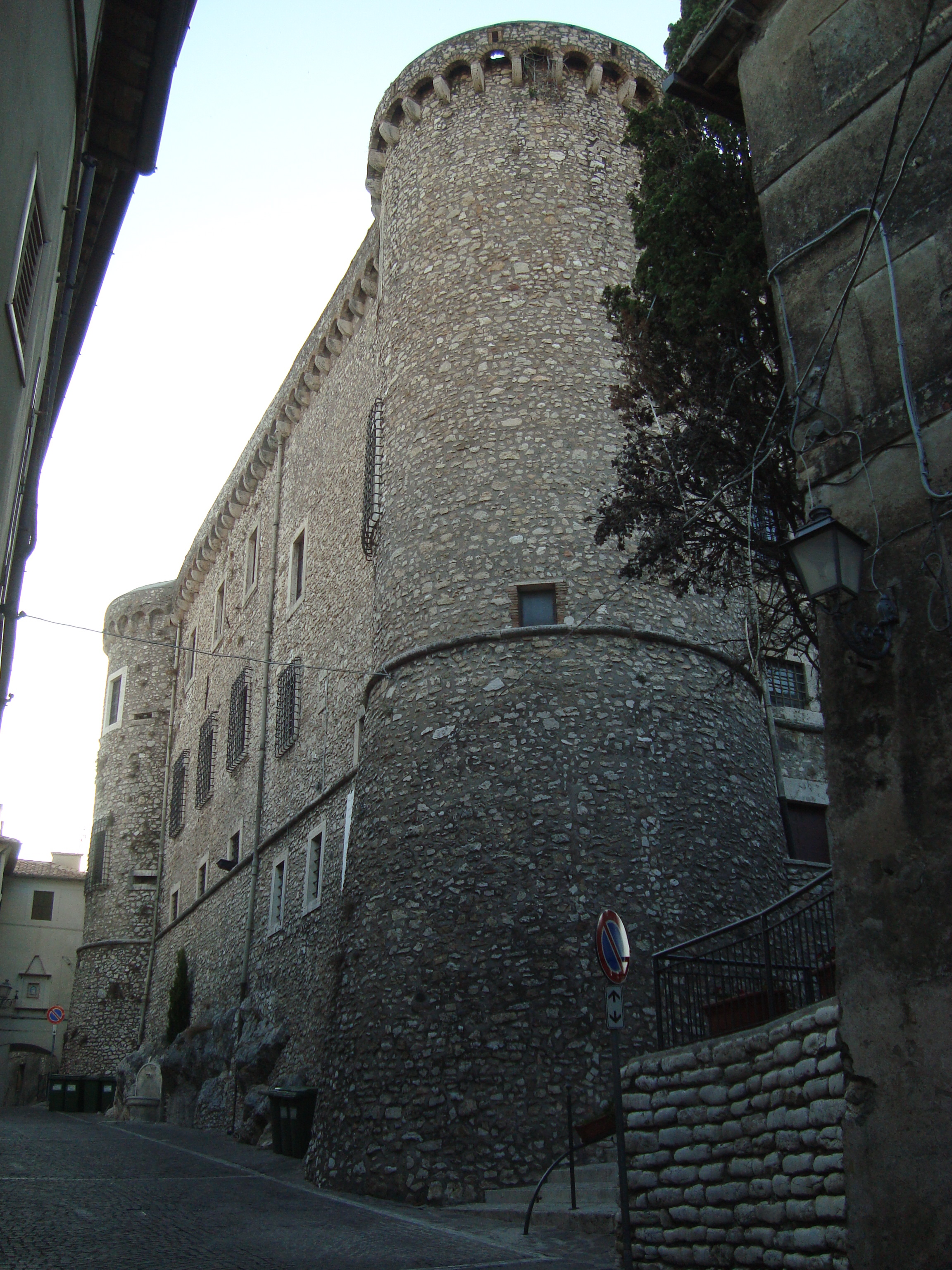 Castello Orsini-Cesi-Borghese in San Polo dei Cavalieri, Lazio, Italy